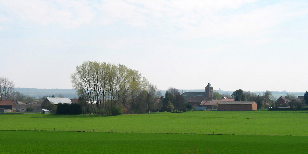 Bray (Belgium), the village and his pastoral environment.